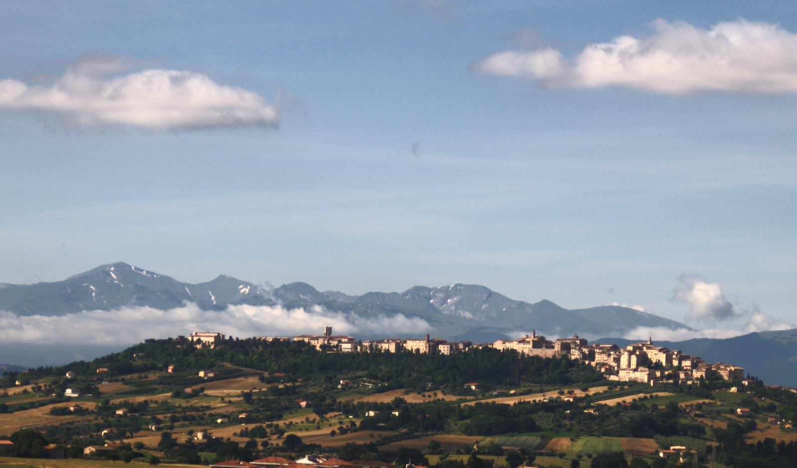 Treia (Italy), as seen from contrada Schito on a relatively clear day in June.